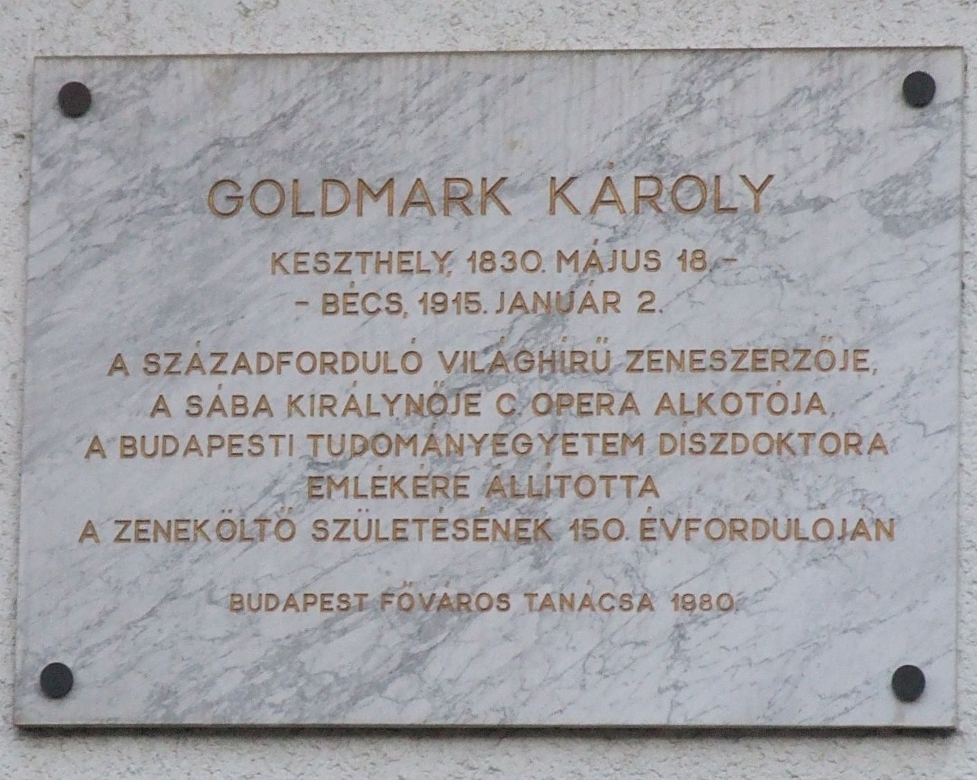 Commemorative plaque of Károly Goldmark in Budapest District XII, Goldmark Károly Street No 17